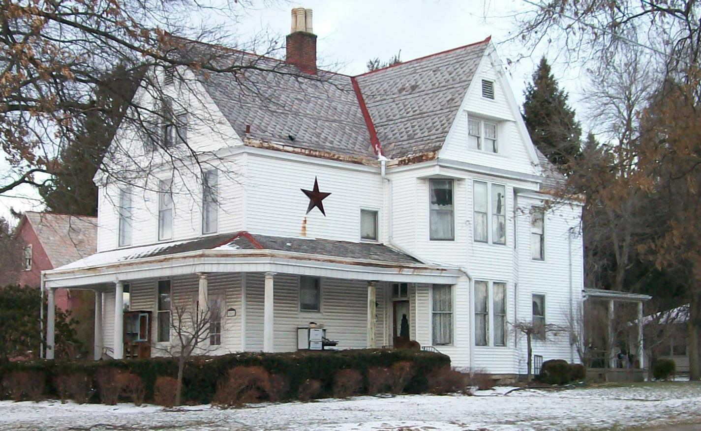 The Captain James Boggs Tannehill House on Taylor Street. Address has changed to 31617 Taylor Street. Taken on 1-28-2010.